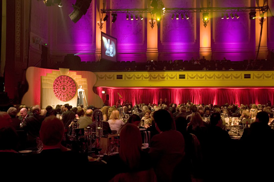 ARIA Hall of Fame Melbourne Town Hall, July 1st 2008